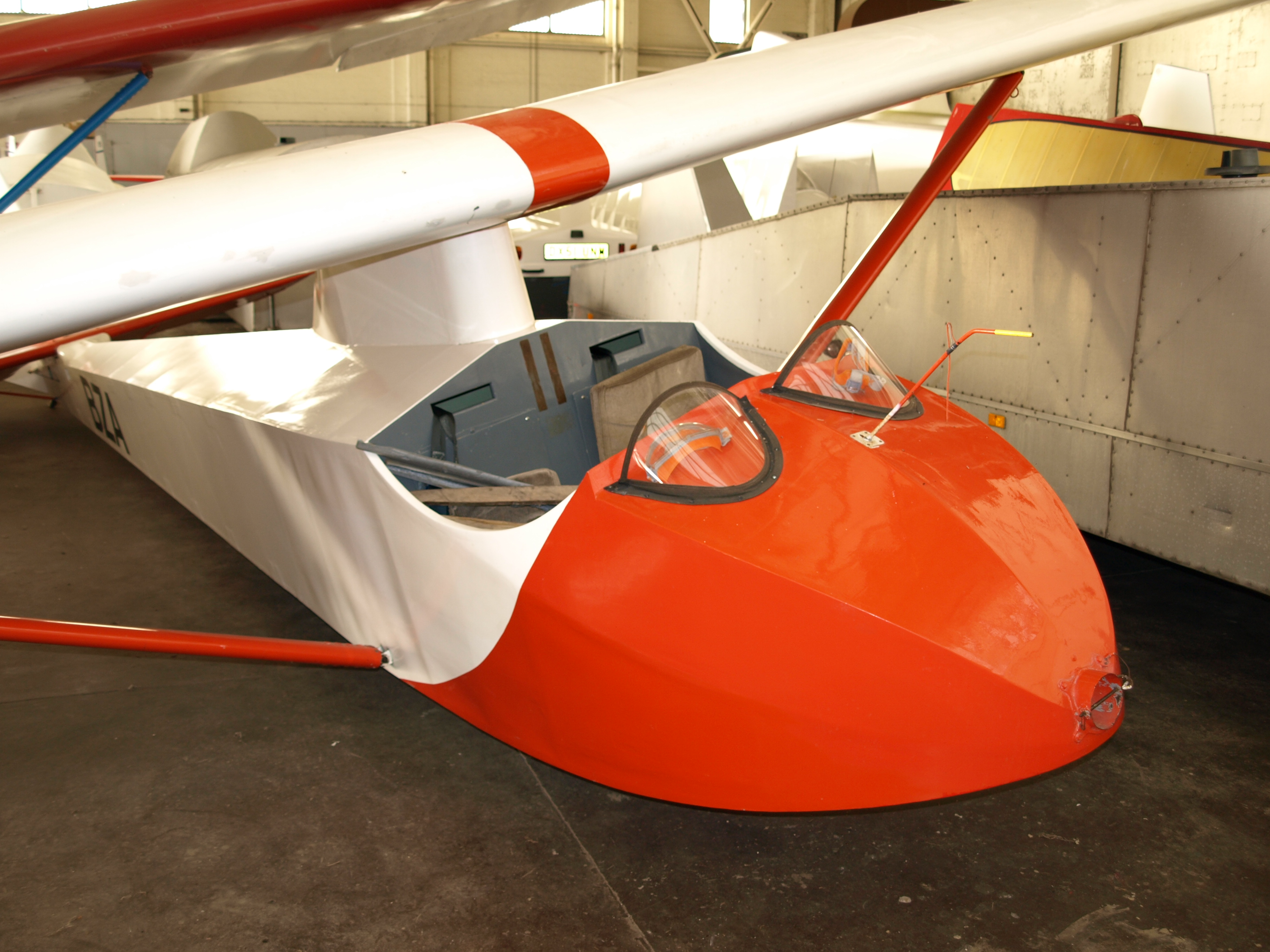 Slingsby T.21 glider